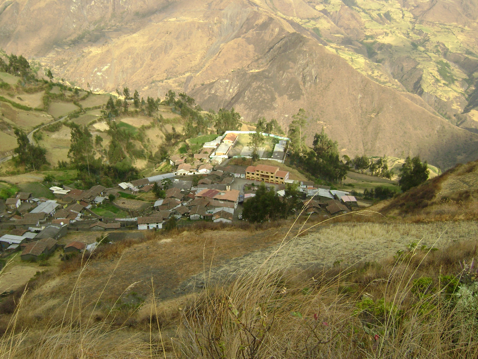 View of Cusca discrict, in the Ancash region of Peru.